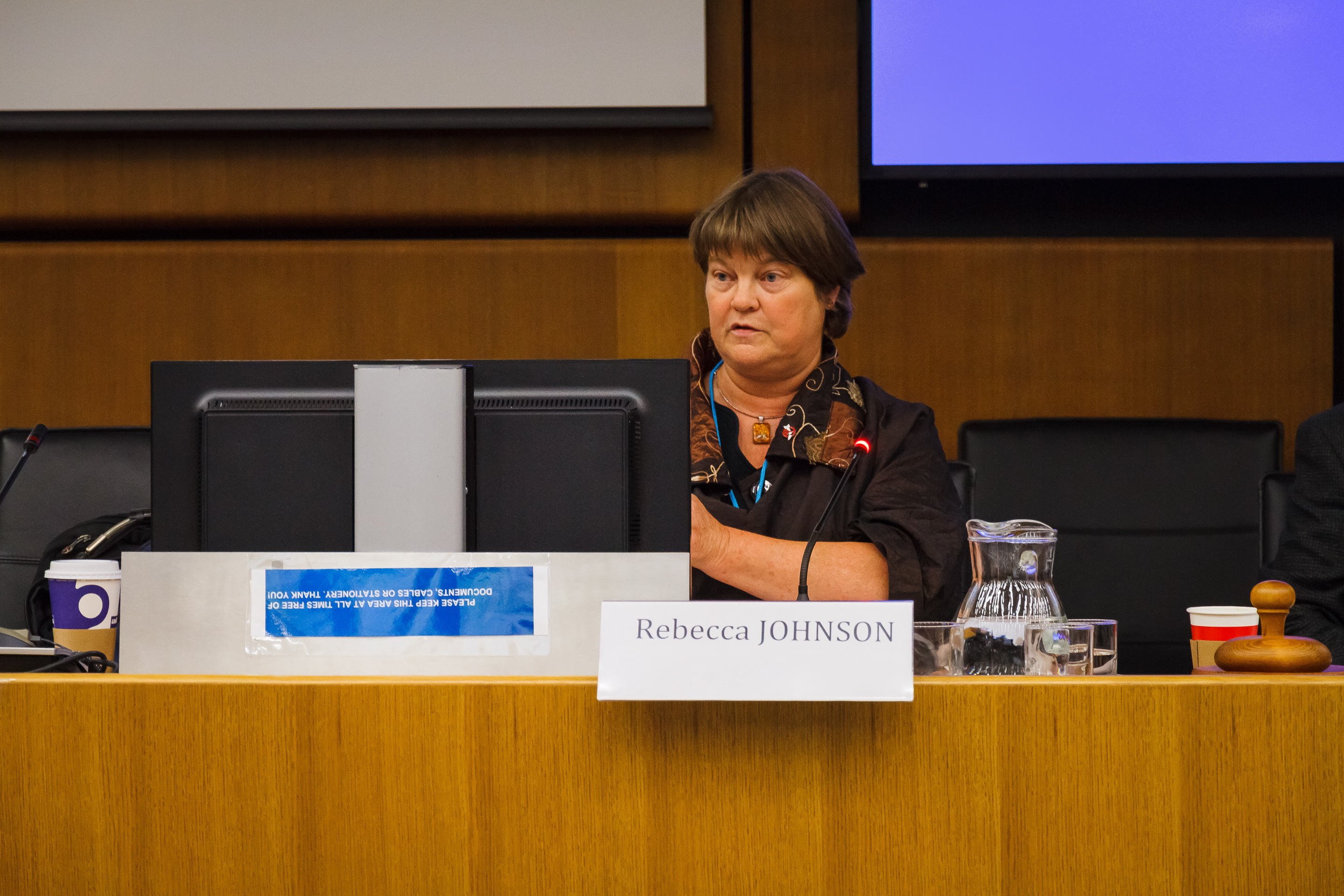 Dr Rebecca Johnson, Executive Director, Acronym Institute Day 2 of the Public Policy Course , 2 September 2014 Vienna International Centre, Held from 1 - 9 September 2014 Vienna, Austria